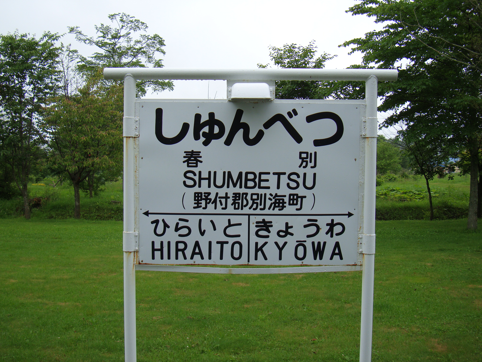 Shumbetsu Station Running in board on Bekkai railway Memorial park. Disused train stations on Shibetsu Line.